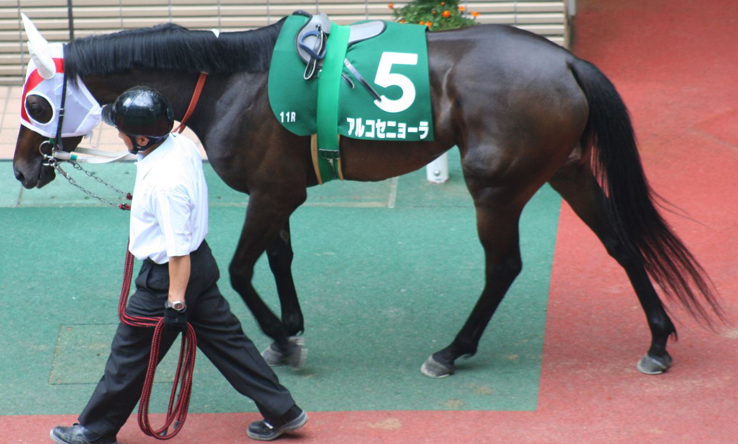 Arco Senora（Horse, Fukushima Racecourse）